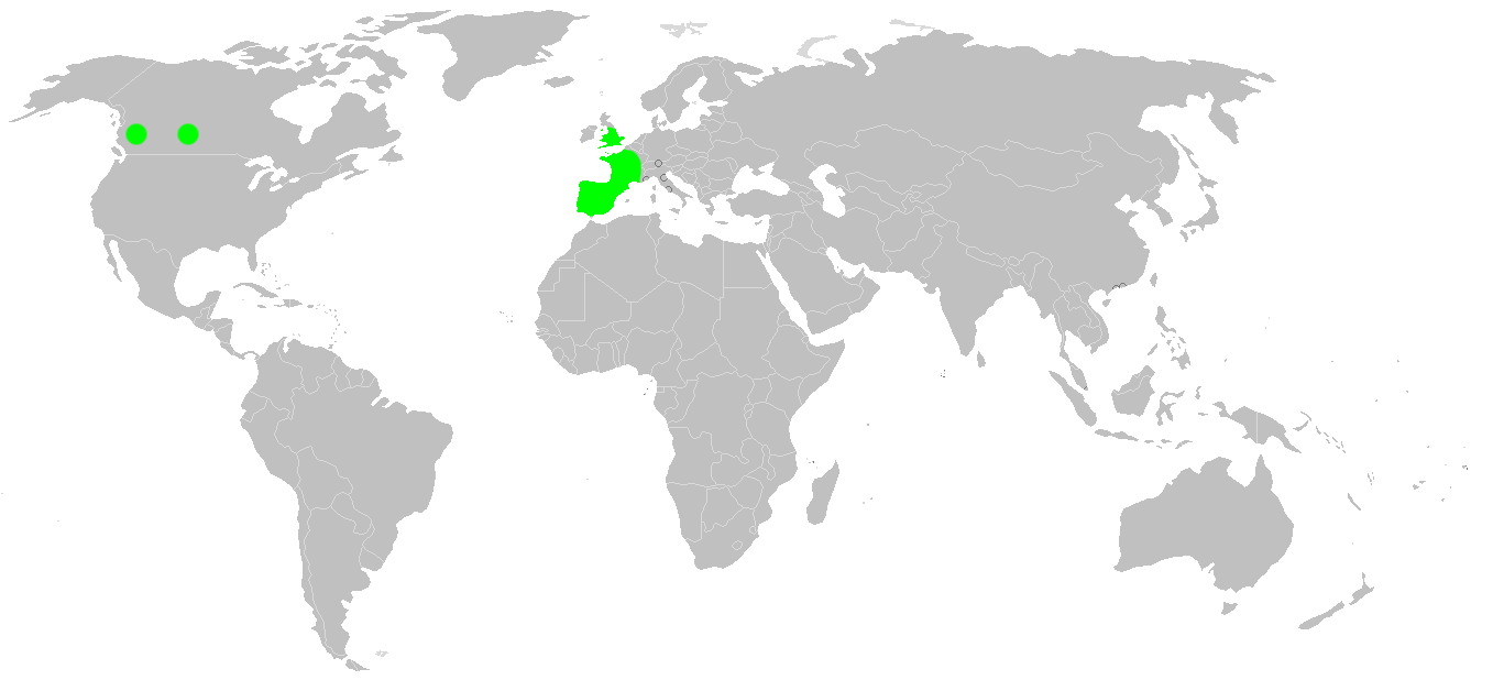 Known world distribution of Tegenaria duellica (= T. gigantea), after data from British Arachnological Society, 2006.